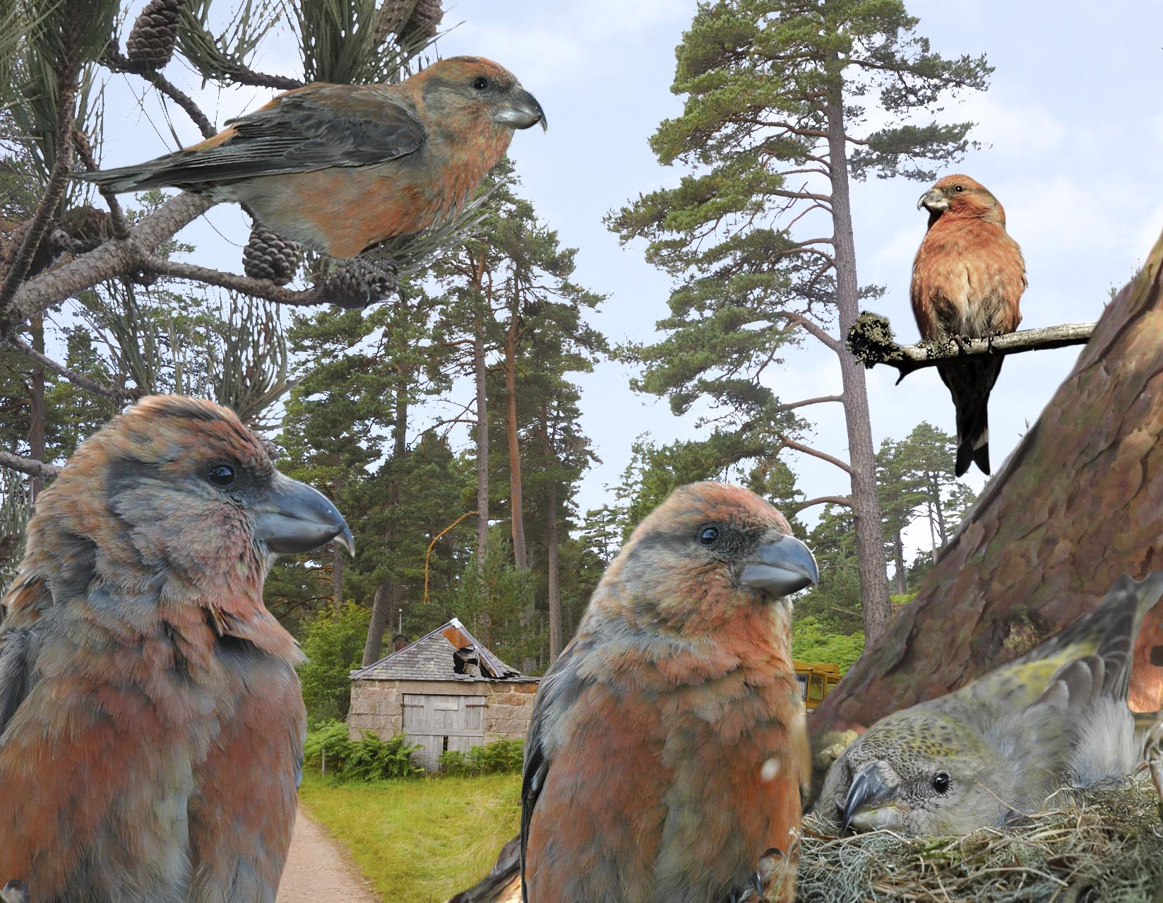 Scottish Crossbill from the Crossley ID Guide Britain and Ireland